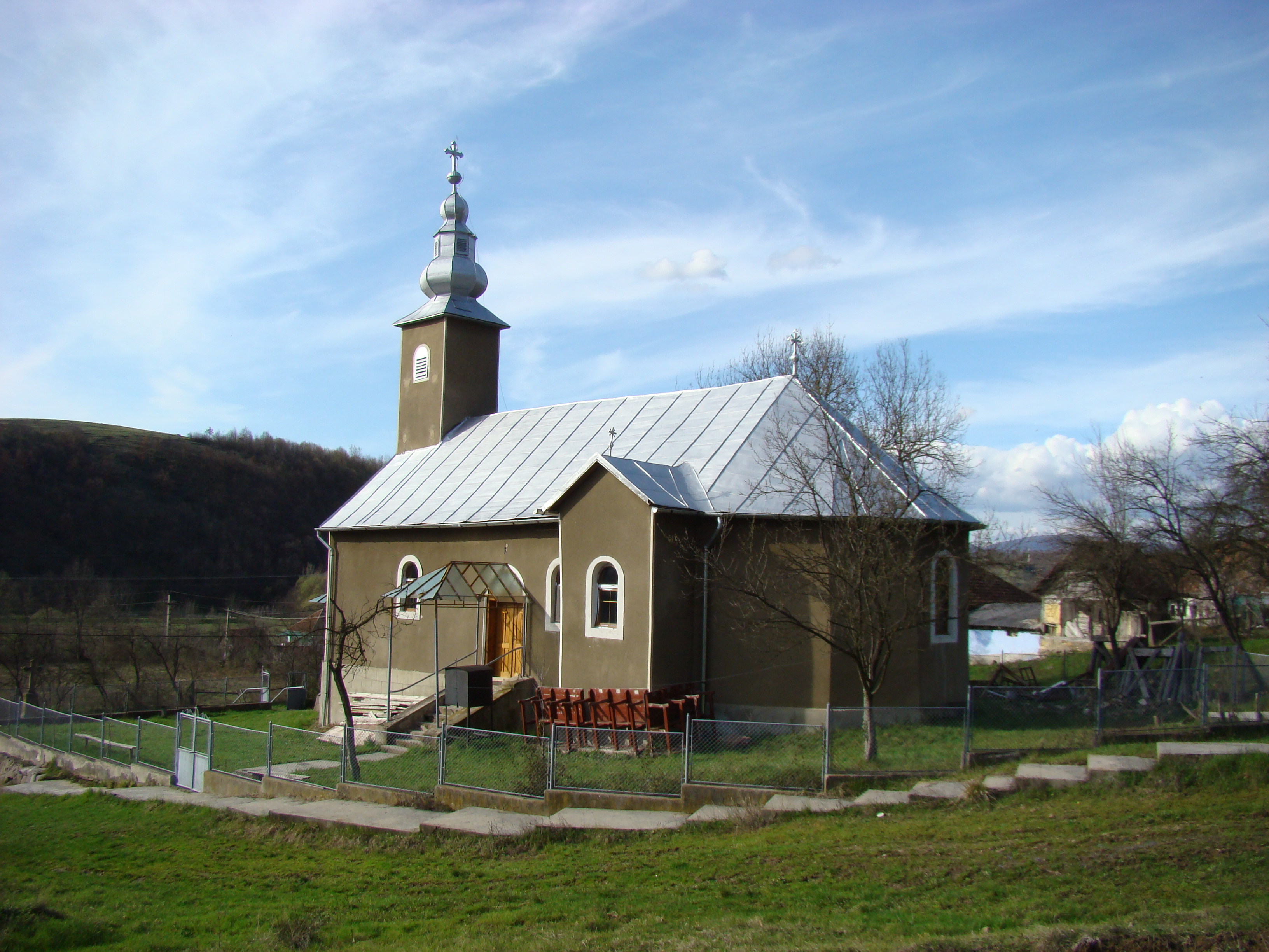 Wooden church in Iosășel, Arad county, Romania